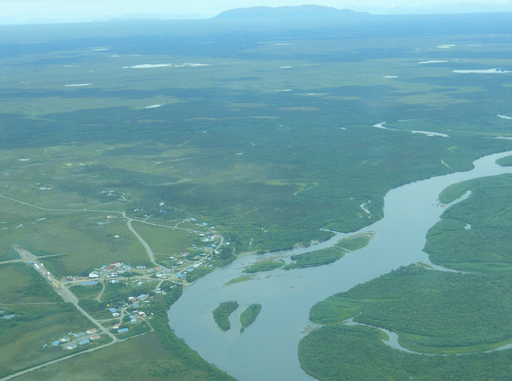 There are 31 federally-recognized tribal governments in the Bristol Bay area, 13 of which are within our study area of the Kvichak and Nushagak watersheds. Many of these villages depend on sockeye salmon for subsistence food and as a source of income. Visit for more information about EPA's Bristol Bay Watershed Assessment